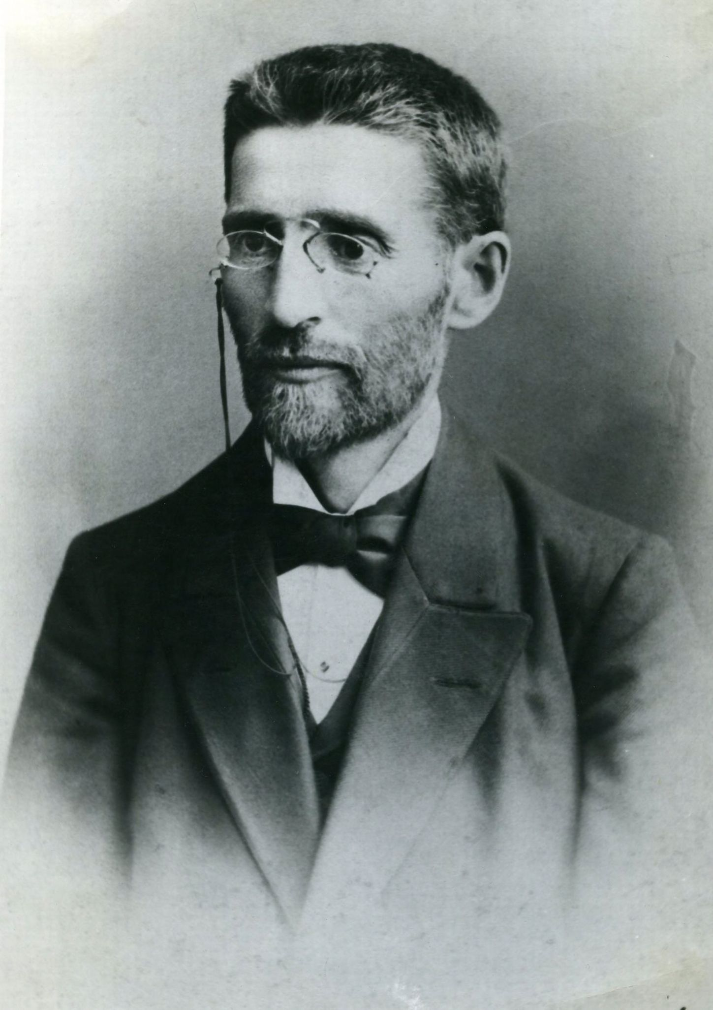 Eliezer Ben-Yehuda.